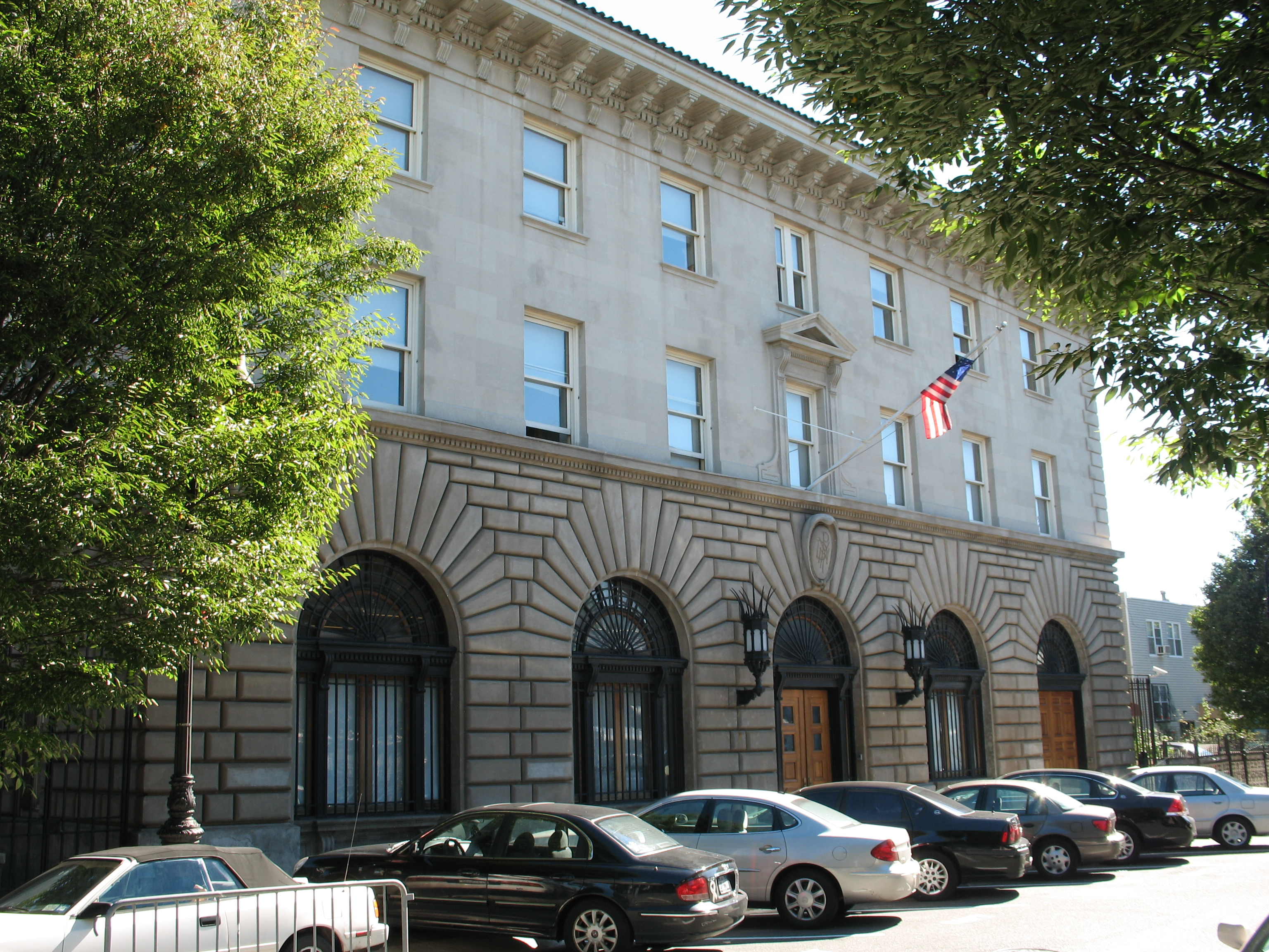 Photograph of the former 41st Precinct Station House at 1086 Simpson Street in Foxhurst, The Bronx, New York in the summer of 2007. The building was formerly known as "Fort Apache" due to the severe crime problem in the South Bronx.